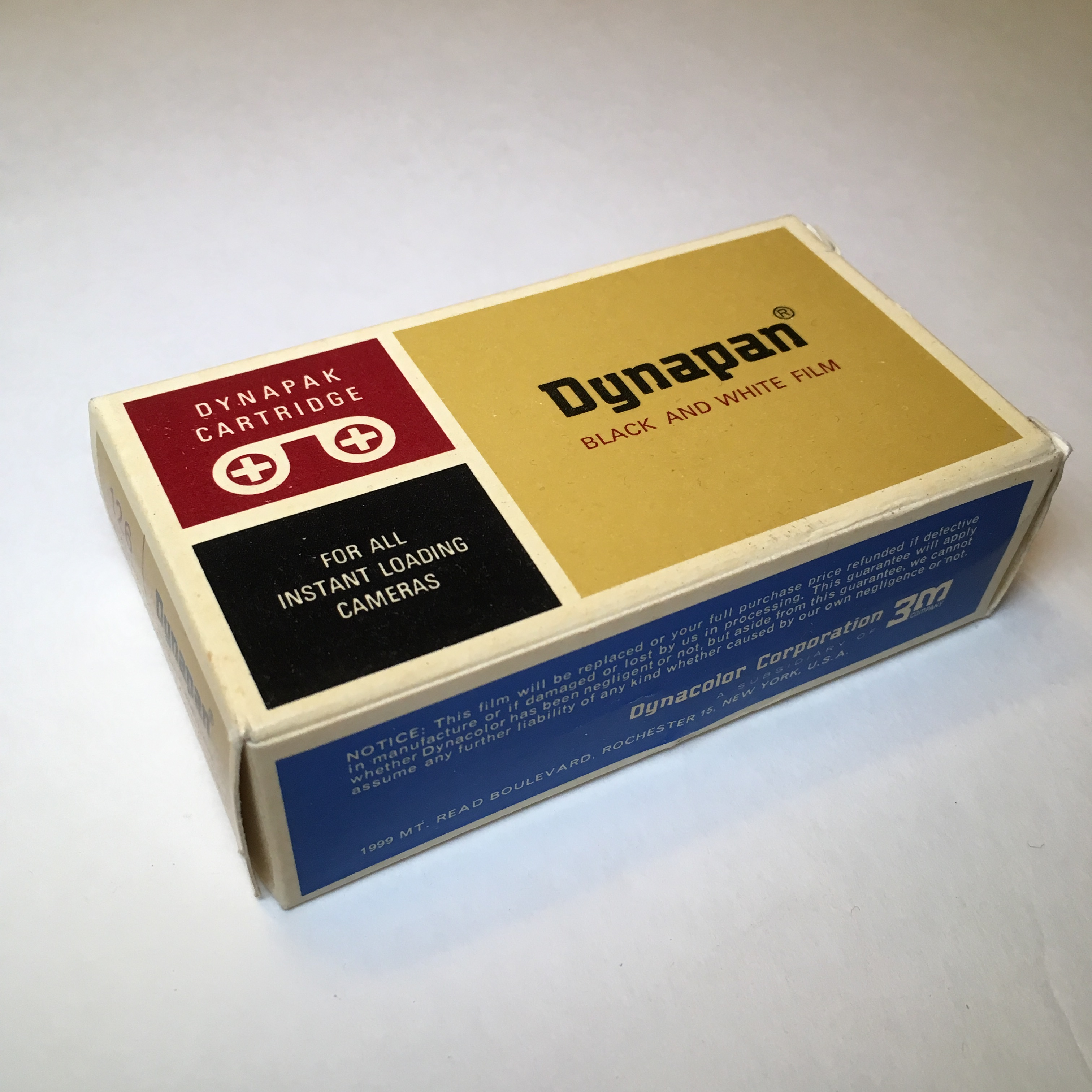 Expired roll of Dynapan 126 B&W Film (Expired: February 1969)